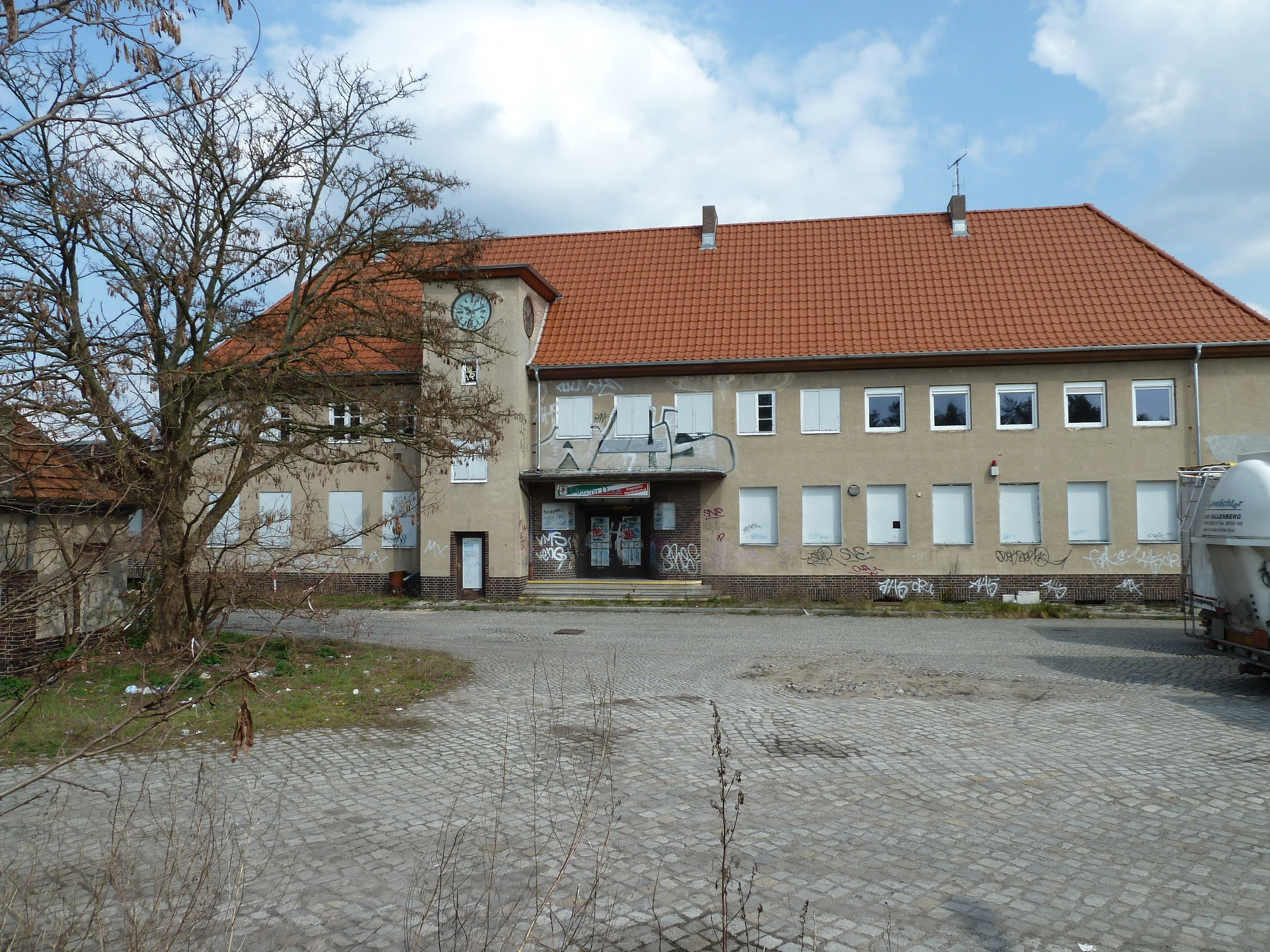 The Rathenow Nord train station is on the cultural heritage list.